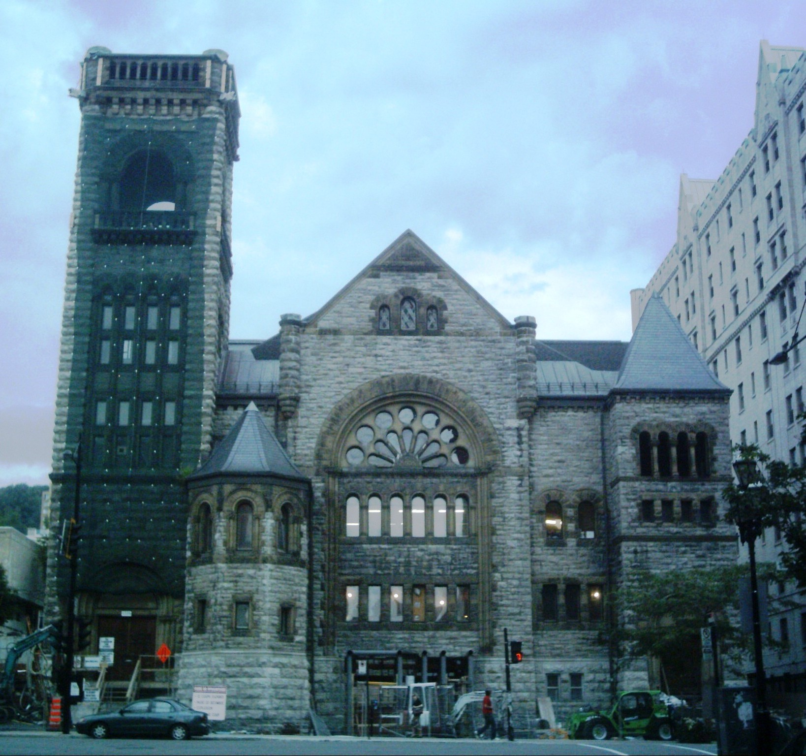 Erskine and American United Church, on Sherbrooke Street, Montreal, close to the Fine Arts Museum